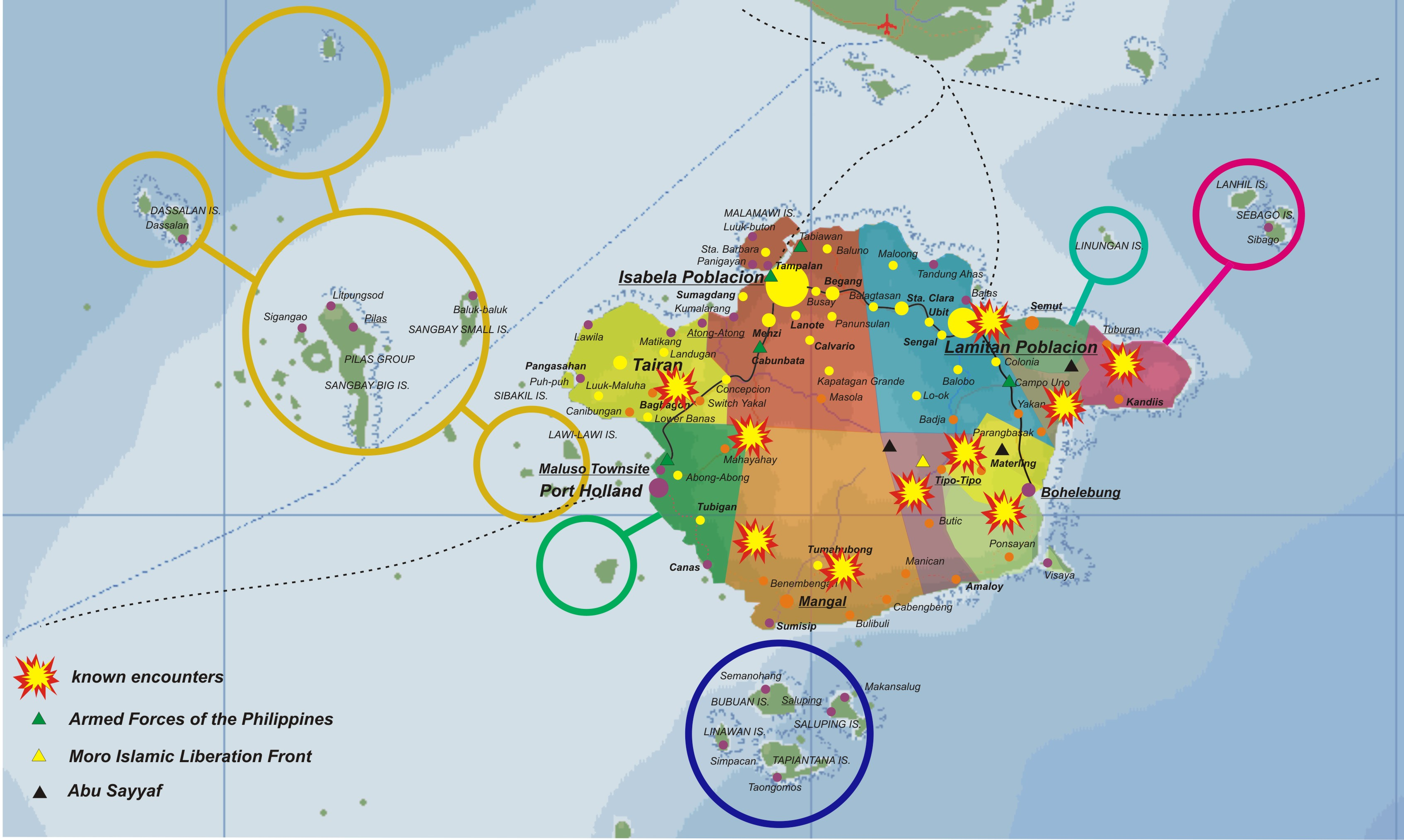 Profile of Basilan's security and peace & order situation